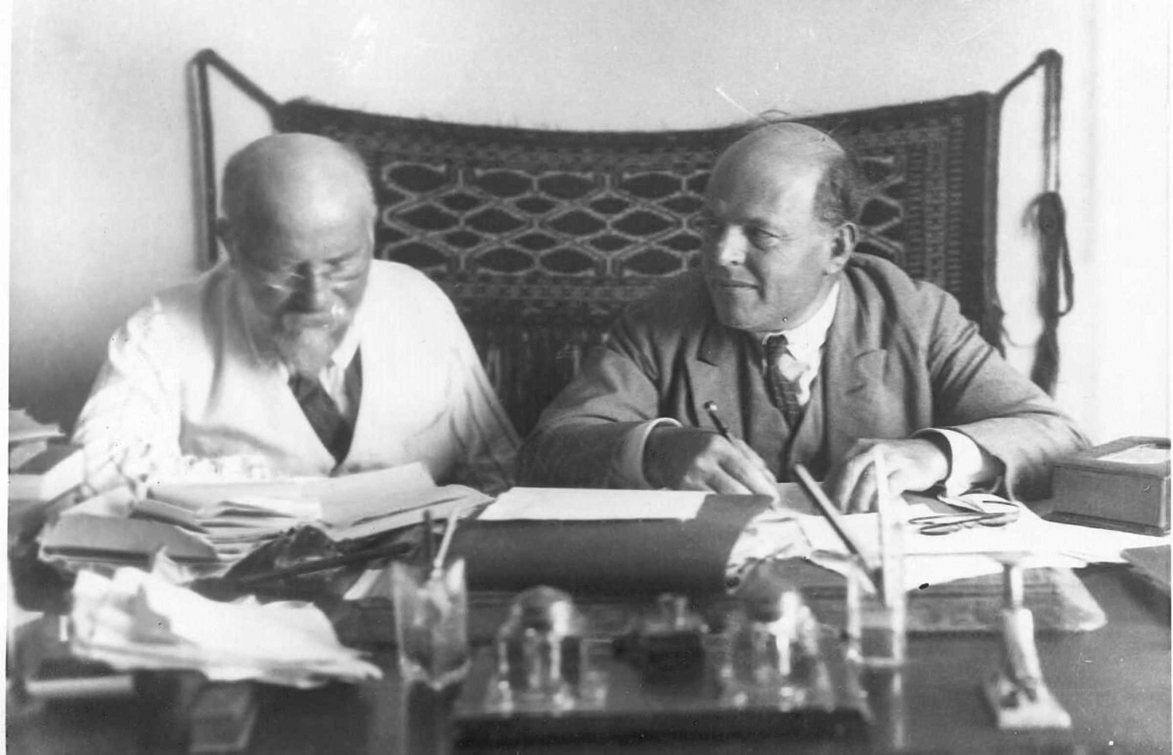 Hayim Nahman Bialik with Yehoshua Khane Ravnitzki